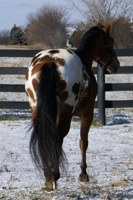 I took this picture this winter at our farm, Appaloosa, "ZMI Tru Blu Companion"